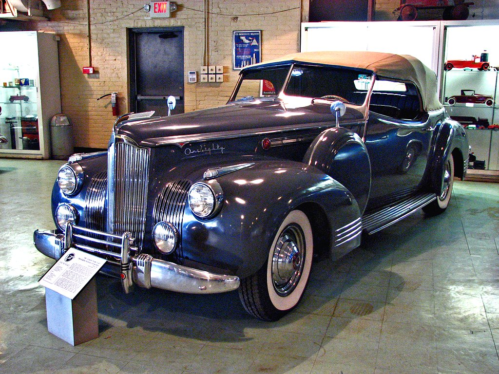 1941 Packard Model 1906 Custom Eight One-Eighty Darrin Convertible Victoria, body style #1429. . I saw the rare Darrin Packard at America's Packard Museum in Dayton,Ohio.